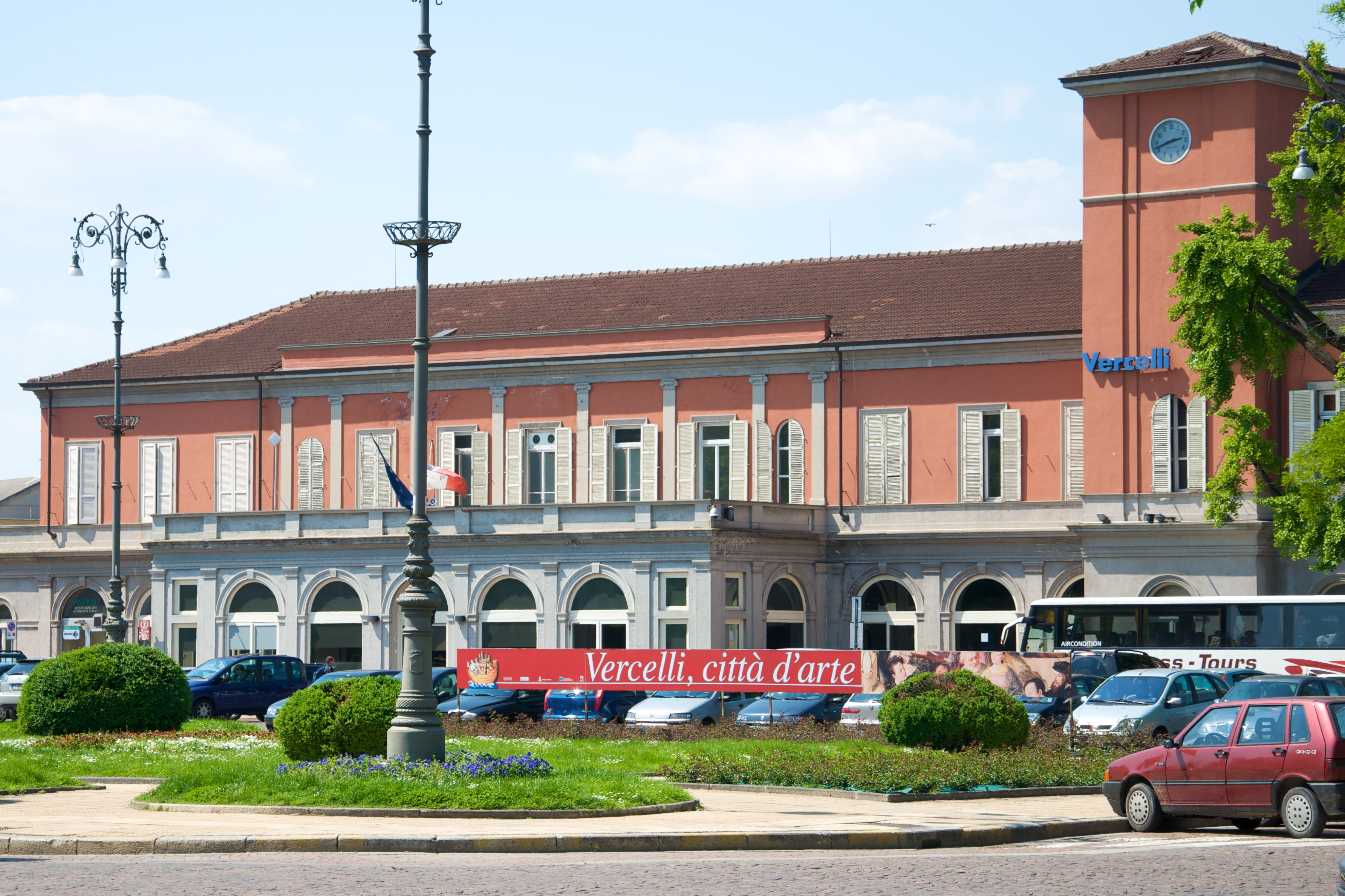 Vercelli Rail Station